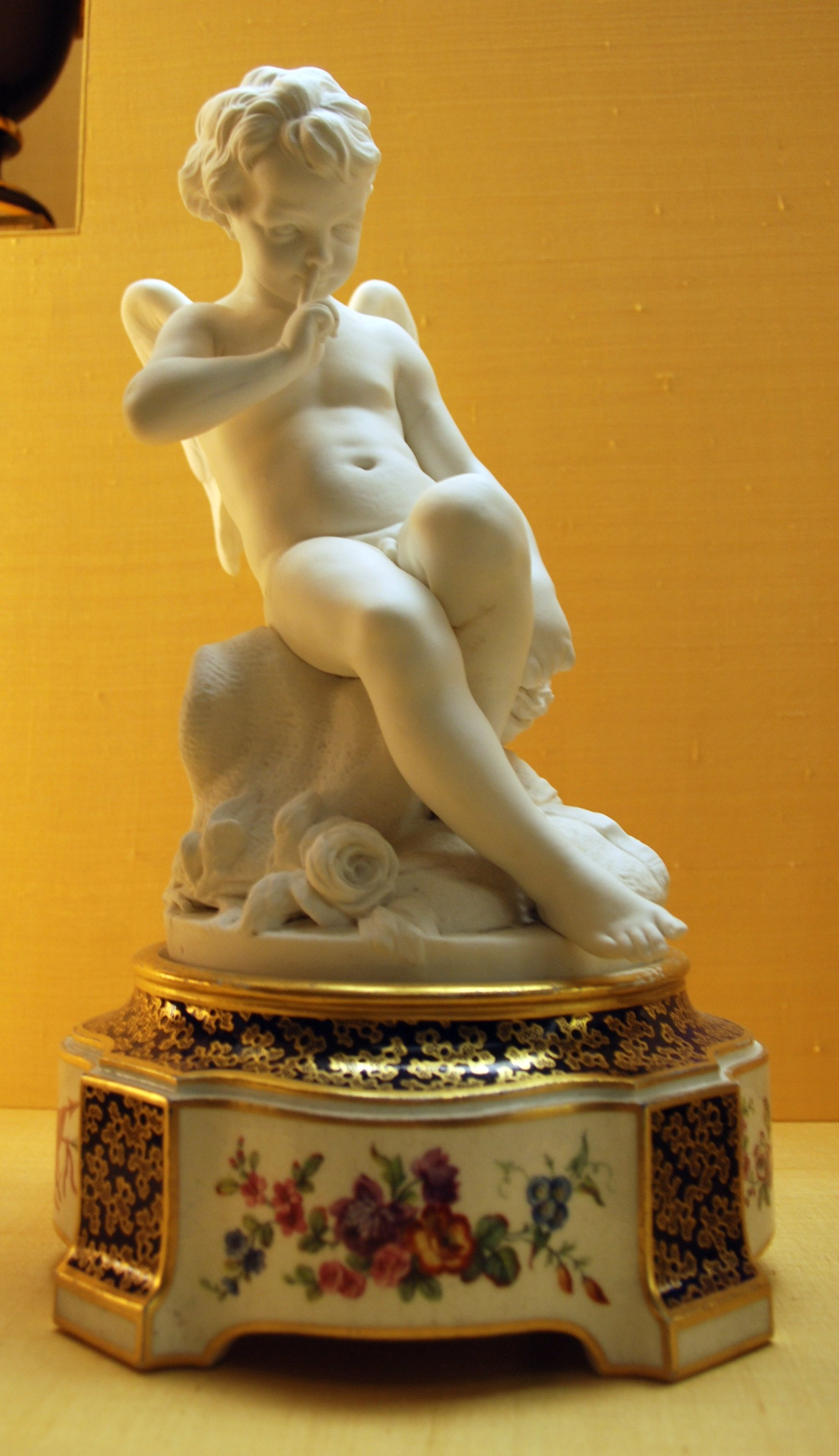 Figure of Cupid (paired with figure of Psyche, not shown) French, Sevres 1758 Biscuit porcelain on detachable bases of soft paste porcelain, painted in enamels and gilt on a bleu nouveau ground; gold and floral decoration Museum no. 804-1882 Wikipedia Loves Art at the Victoria and Albert Museum This photo of item # 804-1882 at the Victoria and Albert Museum was contributed under the team name "drakr" as part of the Wikipedia Loves Art project in February 2009. Victoria and Albert Museum The original photograph on Flickr was taken by Niecieden—please add a comment to the original Flickr page whenever a use has been made on Wikipedia or another project. Project galleries on Flickr: this institution, this team